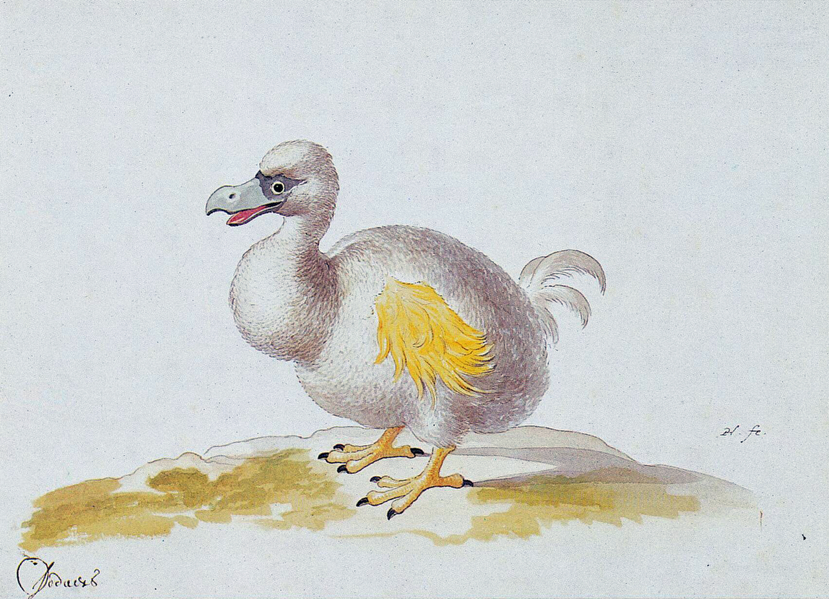 Painting of a white dodo, based on a painting form 1611 by Roelant Savery. This painting itself might have been the basis of later white dodo painting.[1]